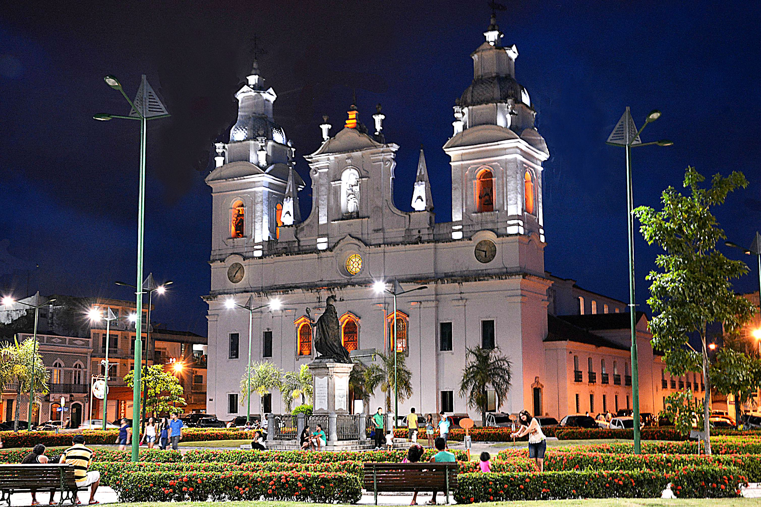 See or Church of Belém Metropolitan Cathedral or Se Cathedral: An integral part of the historical and religious complex of the old town